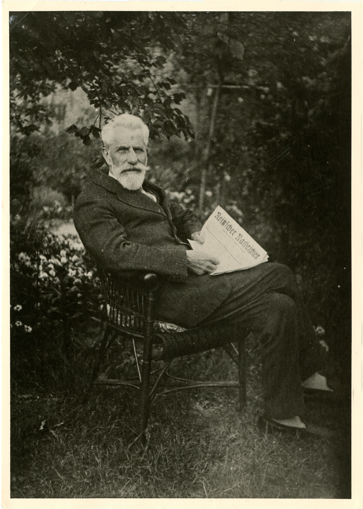 The photo shows Berlin sculptor Paul Friedrich Carl Türpe/Tuerpe (1859-1944), creator of Stuhlmann-fountain in suburb Altona of Hamburg, Germany. The photo is a photo taken by family members in the garden of my grandparents.